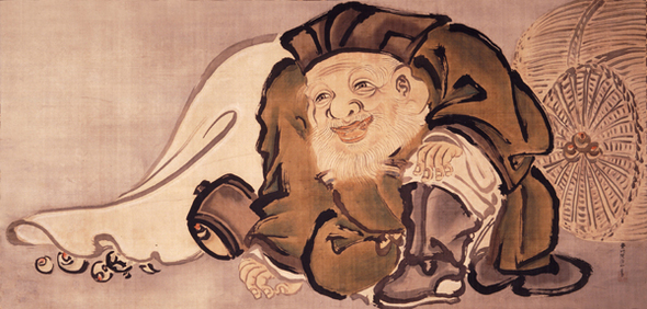 A 2-metre wide painting by the Japanese Kanō school painter Kanō Michinobu. Daikoku-zu, 18th century, pigment on silk, 96 × 197 centimetres (38 × 78 in)